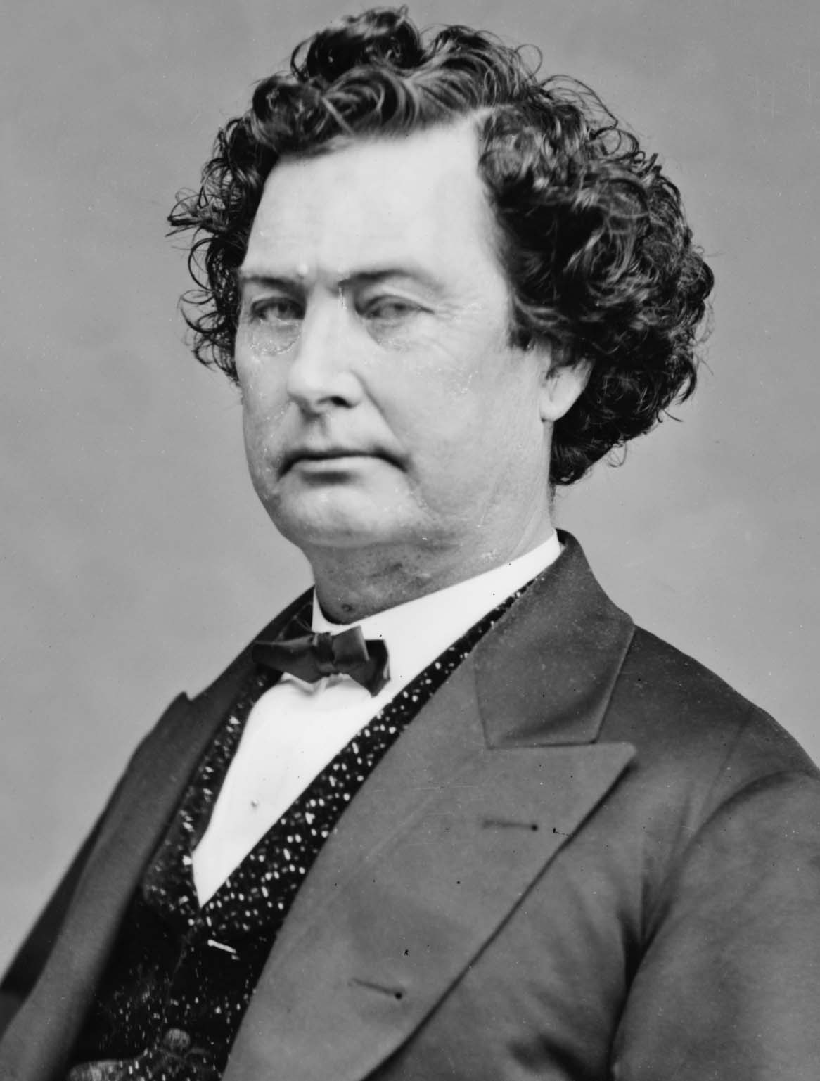 TITLE: Hon. Richard Yates of Ill. CALL NUMBER: LC-BH83- 1765 [P&P] REPRODUCTION NUMBER: LC-DIG-cwpbh-00536 (digital file from original neg.) RIGHTS INFORMATION: No known restrictions on publication. MEDIUM: 1 negative : glass, wet collodion. CREATED/PUBLISHED: [between 1860 and 1875] NOTES: Title from unverified information on negative sleeve. Lincoln Pallbearer; Delegate to Republican Nat. Convention at Chicago in 1860. Forms part of Brady-Handy Photograph Collection (Library of Congress). FORMAT: Portrait photographs 1860-1880. Glass negatives 1860-1880. REPOSITORY: Library of Congress Prints and Photographs Division Washington, D.C. 20540 USA CONTROL #: brh2003000700/PP